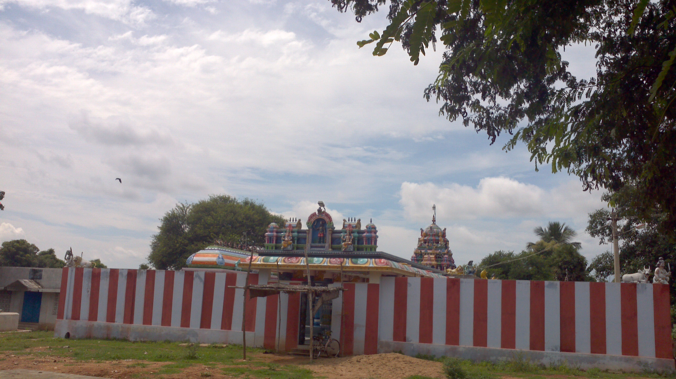 This is the historic "Santhiveeran" temple in the mallakottai village